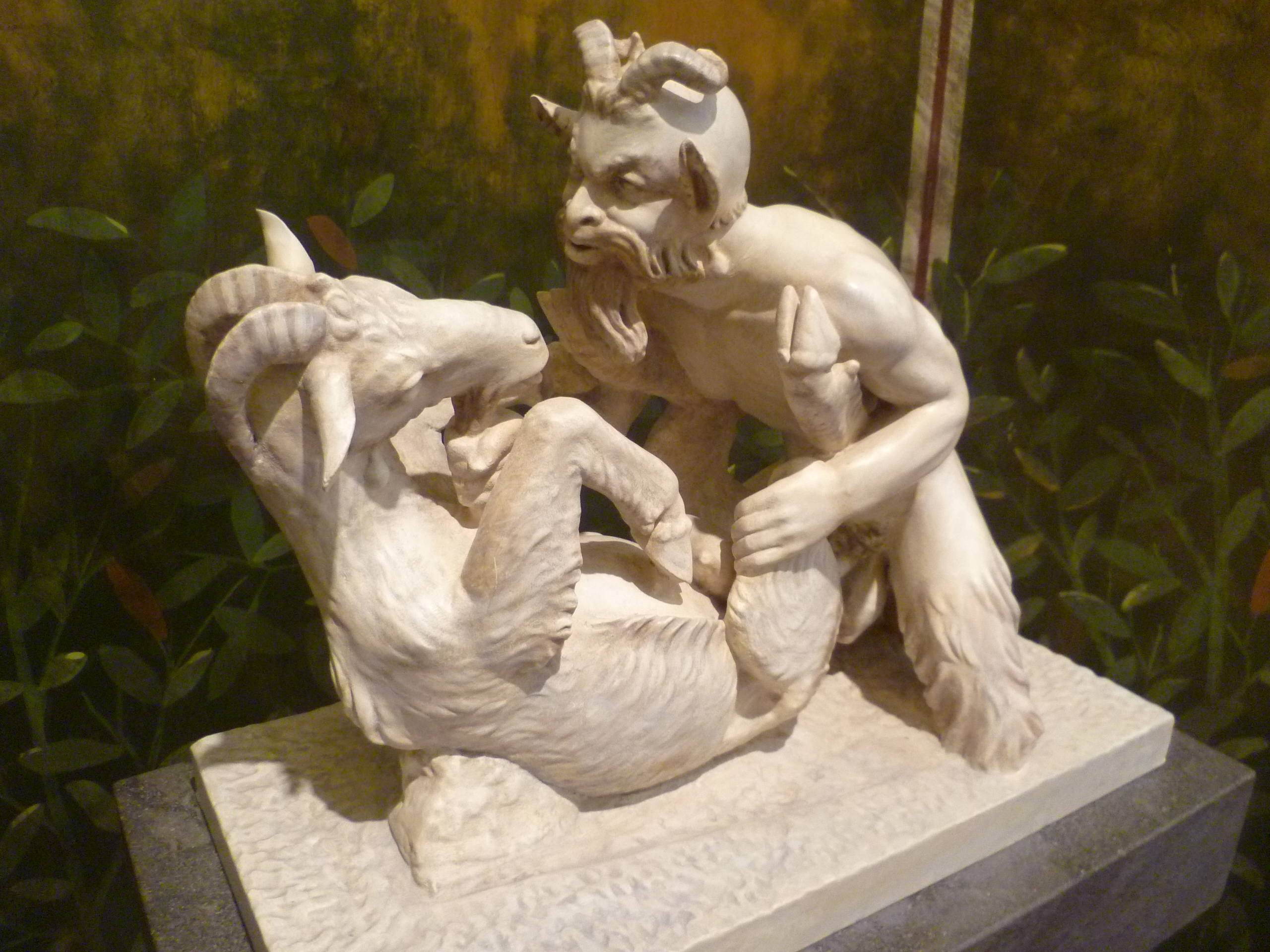 An exhibit in the National Archaeological Museum in Naples